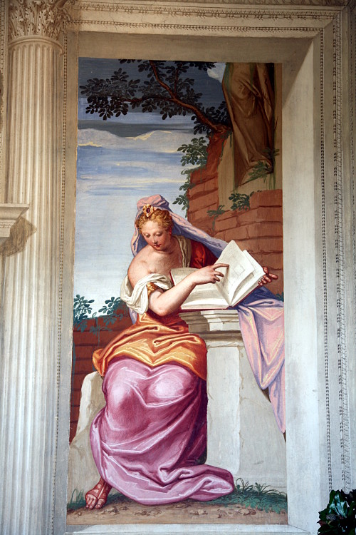 Villa Emo. From the room of arts. Architecture. Frescoes by Giovanni Battista Zelotti.